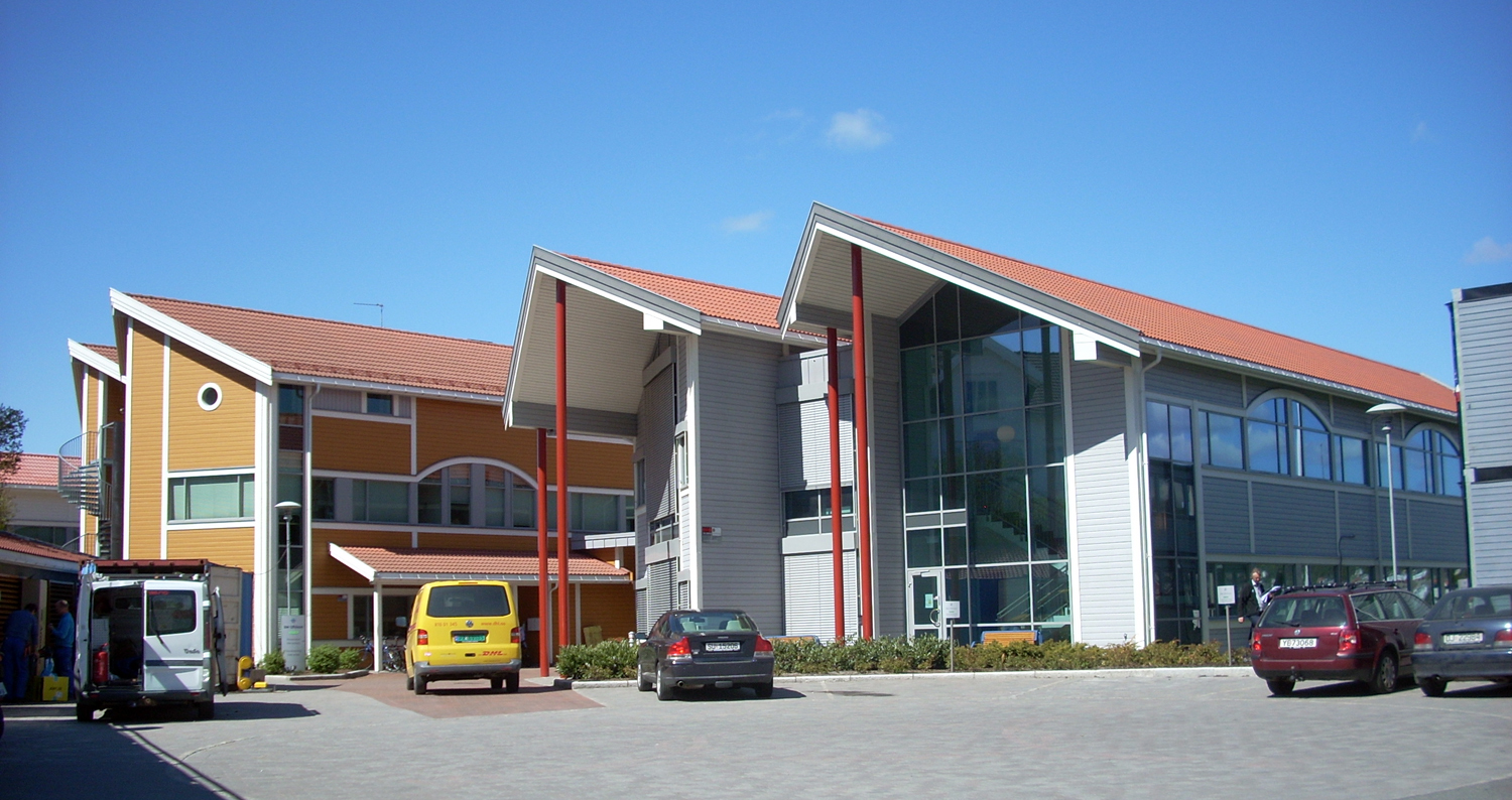 APL company (Advanced Production and Loading) in Arendal, Norway